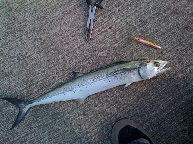 Japanese Spanish mackerel Scomberomorus niphonius